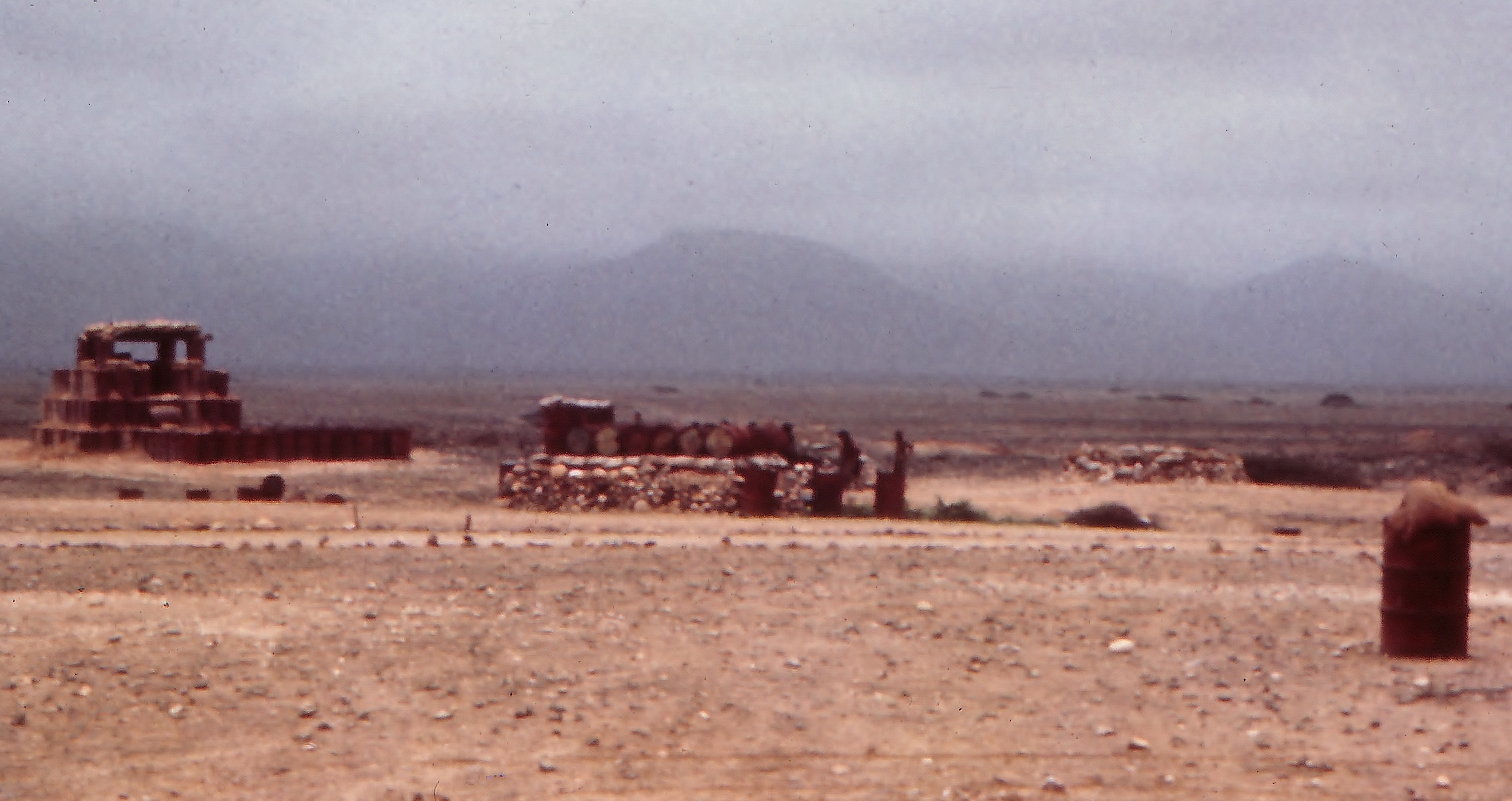 The Dhofar War. This is Hedgehog 'Charlie' one of 5 'Hedgehogs' protecting Salalah airfield from adoo (enemy) small-arms fire and RPG's. However, the Adoo, began to launch 122mm Katyusha rockets from the forward slopes of the distant jebel, resulting in a secondary line of defensive positions known as 'the Dianas' being established on the jebel itself.. Prior to the Dianas, one Katyusha rocket actually landed in the Officers' Mess garden, at RAF Salalah. This photo was taken during the early Khareef ( monsoon), and the jebel is already covered in wet mist and drizzle.